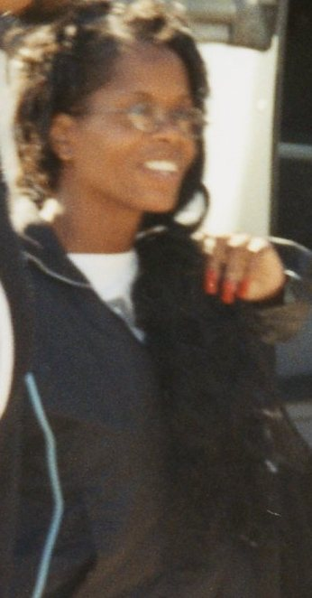 Jacqueline during a WWE tour in possibly 1999.